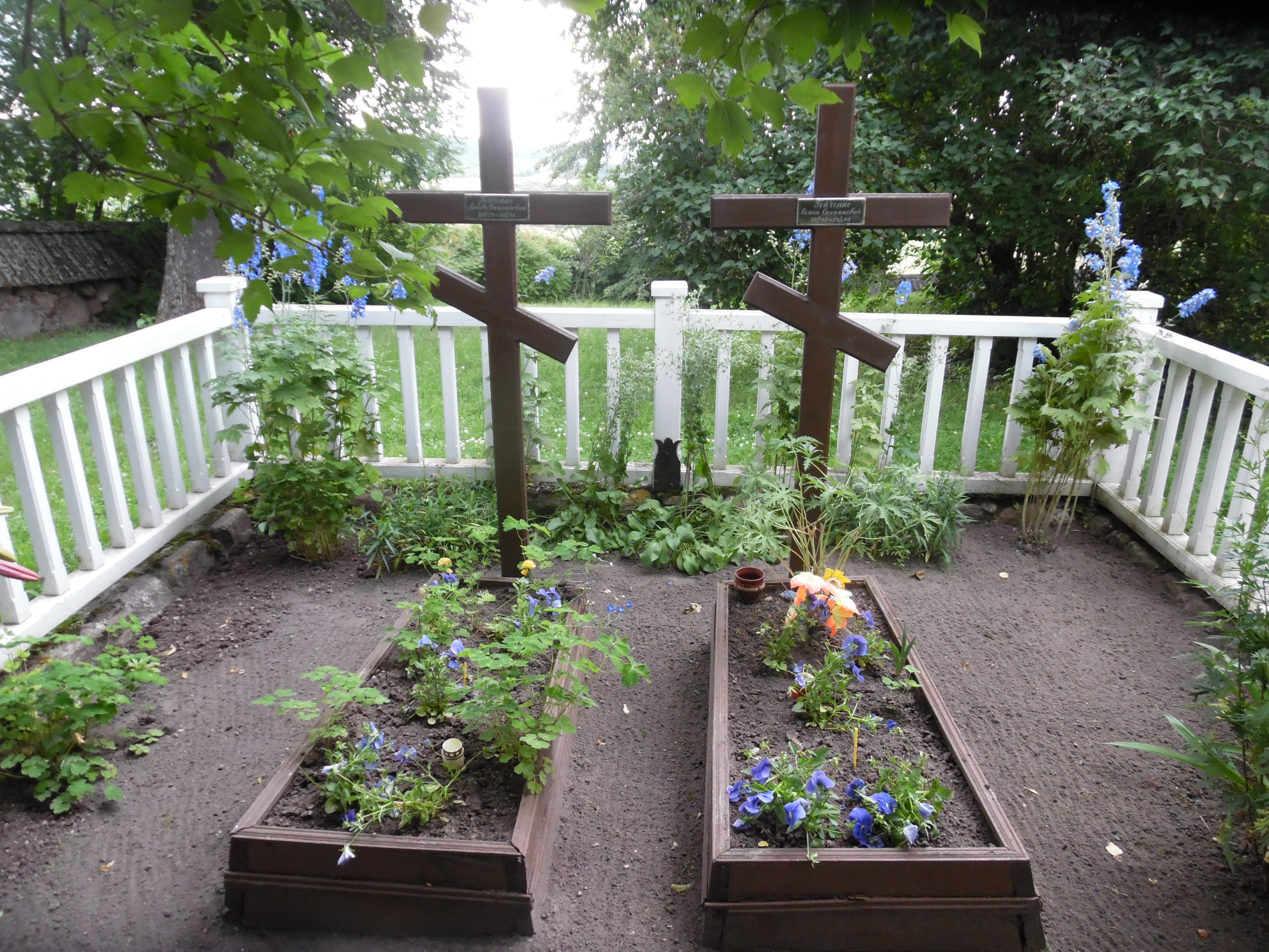 The tomb of S.S. Geichenko and his wife at the Voronich hill